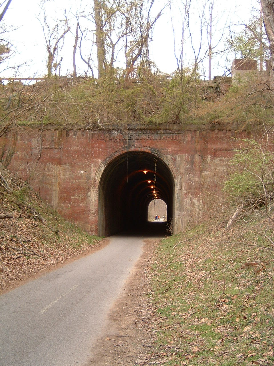 Dalecarlia Tunnel, Brookmont, Maryland, built in 1910 by the Baltimore & Ohio Railroad. The tunnel is now part of the Capital Crescent Trail. Photo taken from south side.